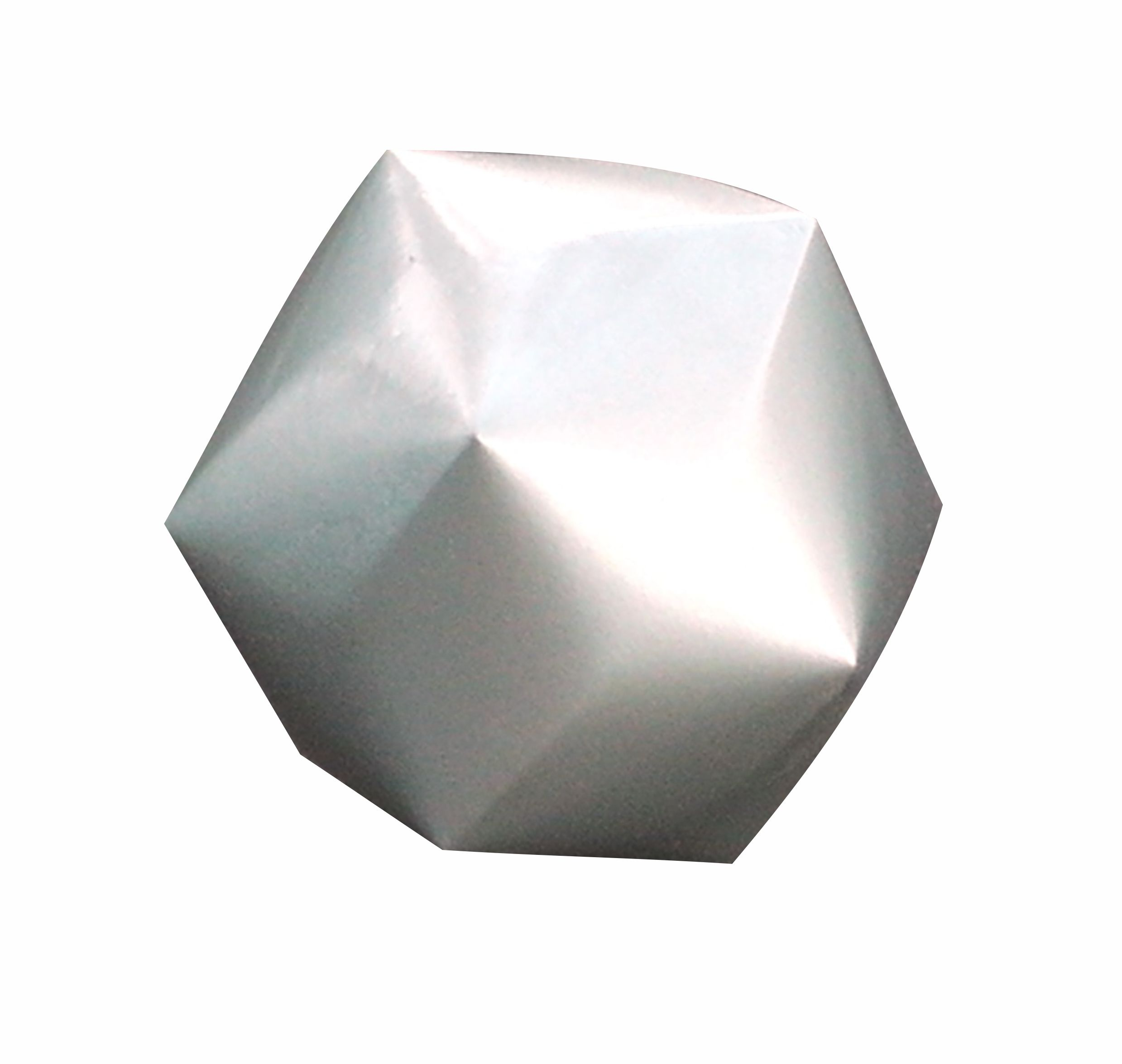 3D printed icosahedcon.